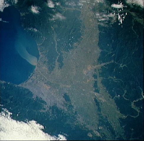 Space Shuttle image of Sapporo metropolitan area, Hokkaidō, Japan.